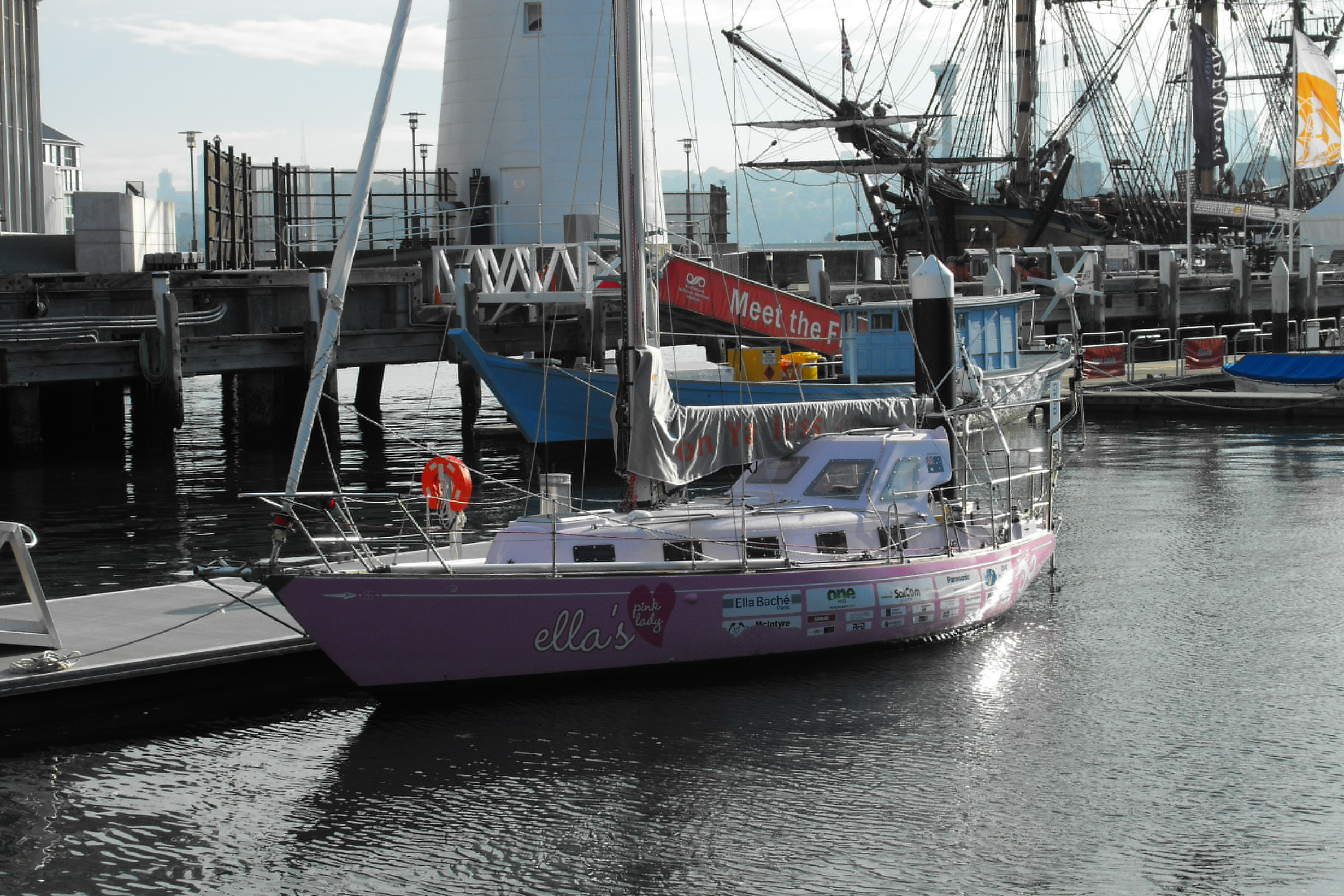 Jessica Watson's yacht, Ella's Pink Lady, docked at the Australian National Maritime Museum following her solo round-the-world voyage.